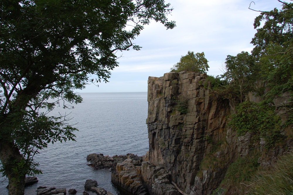 View of Helligdomsklipperne, Bornholm, Denmark